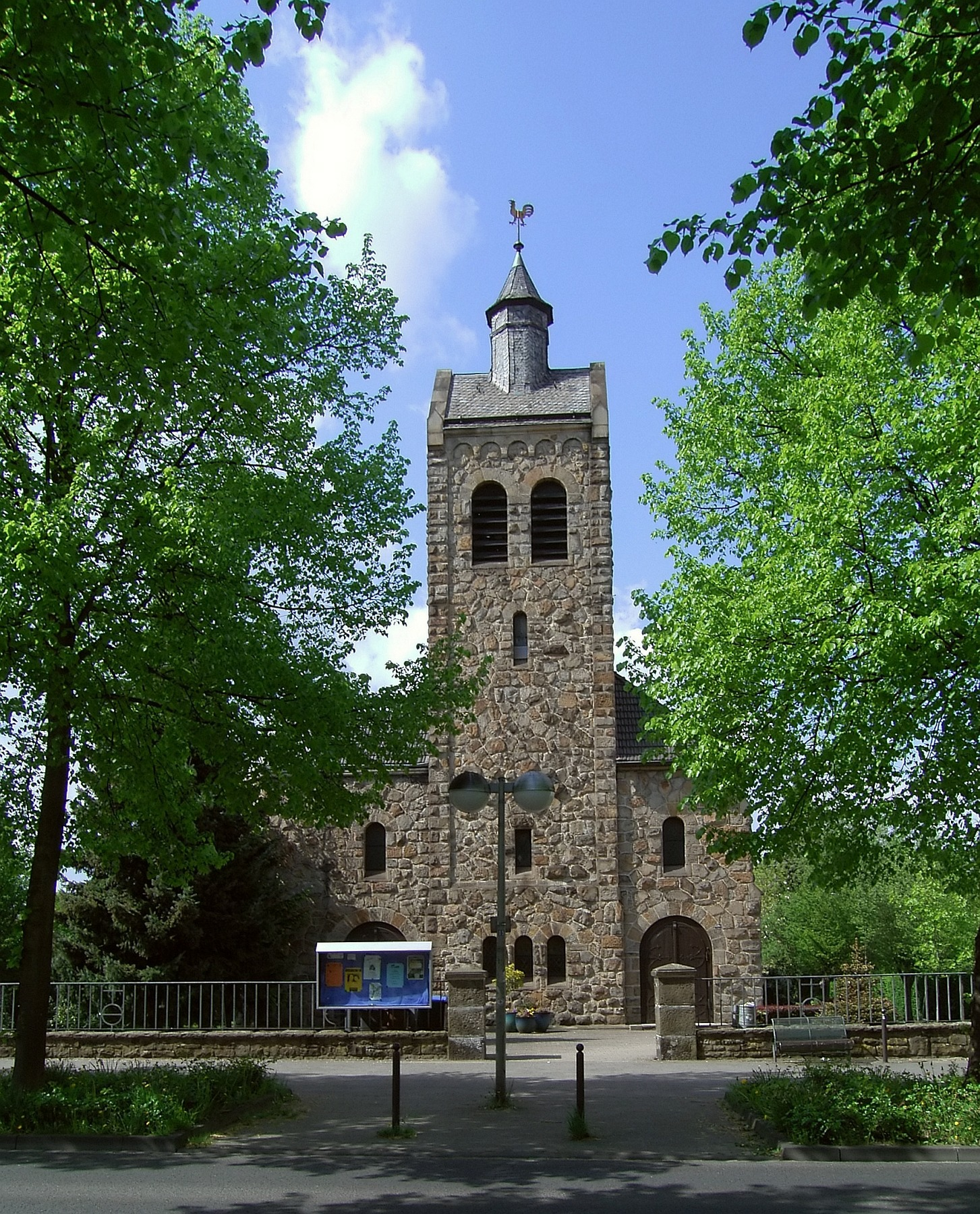 protestant church in Witten-Stockum